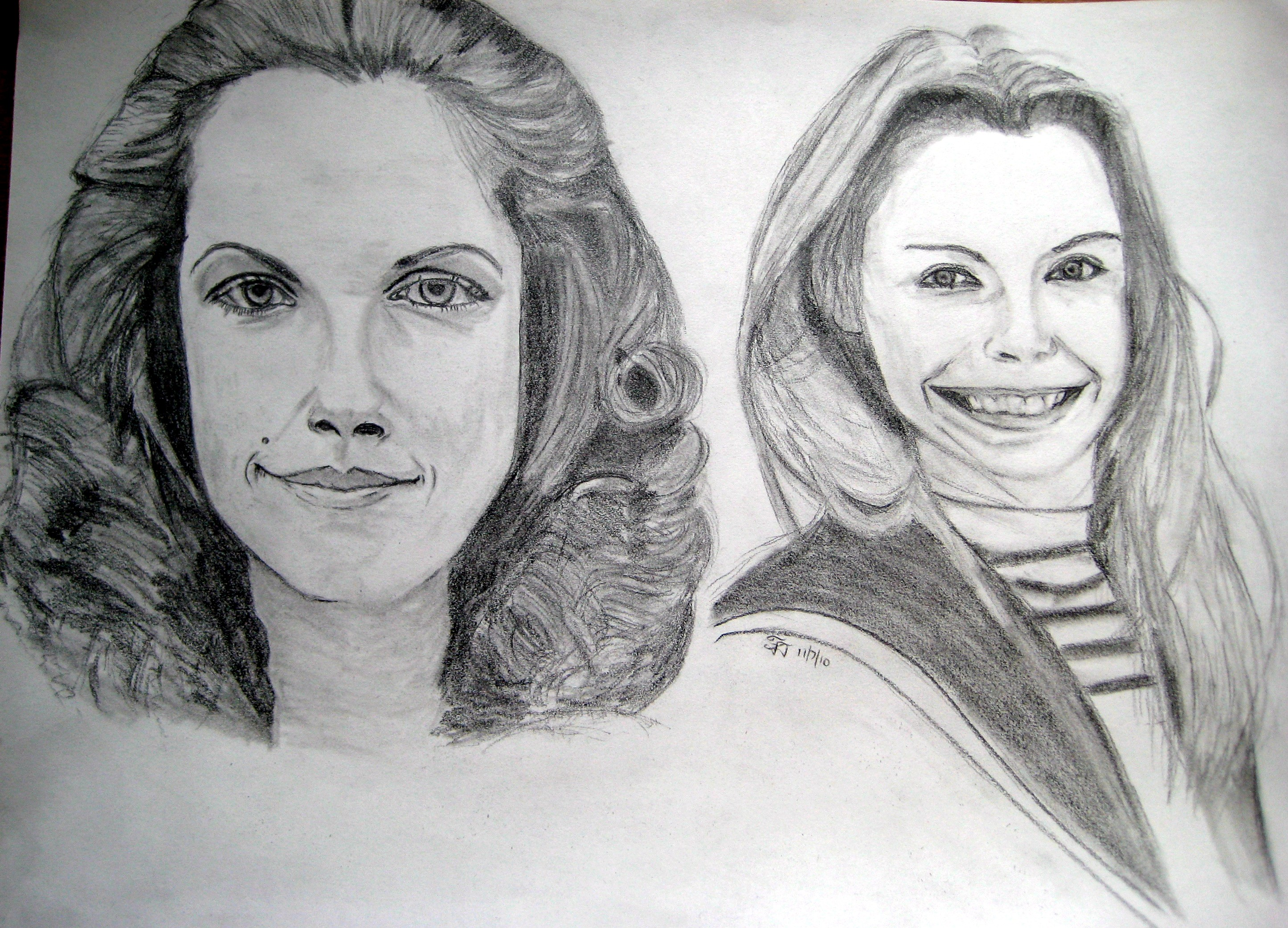 Drawing of Mary Tamm and Lalla Ward, both incarnations of Time Lady Romana, from British tv series Doctor Who.